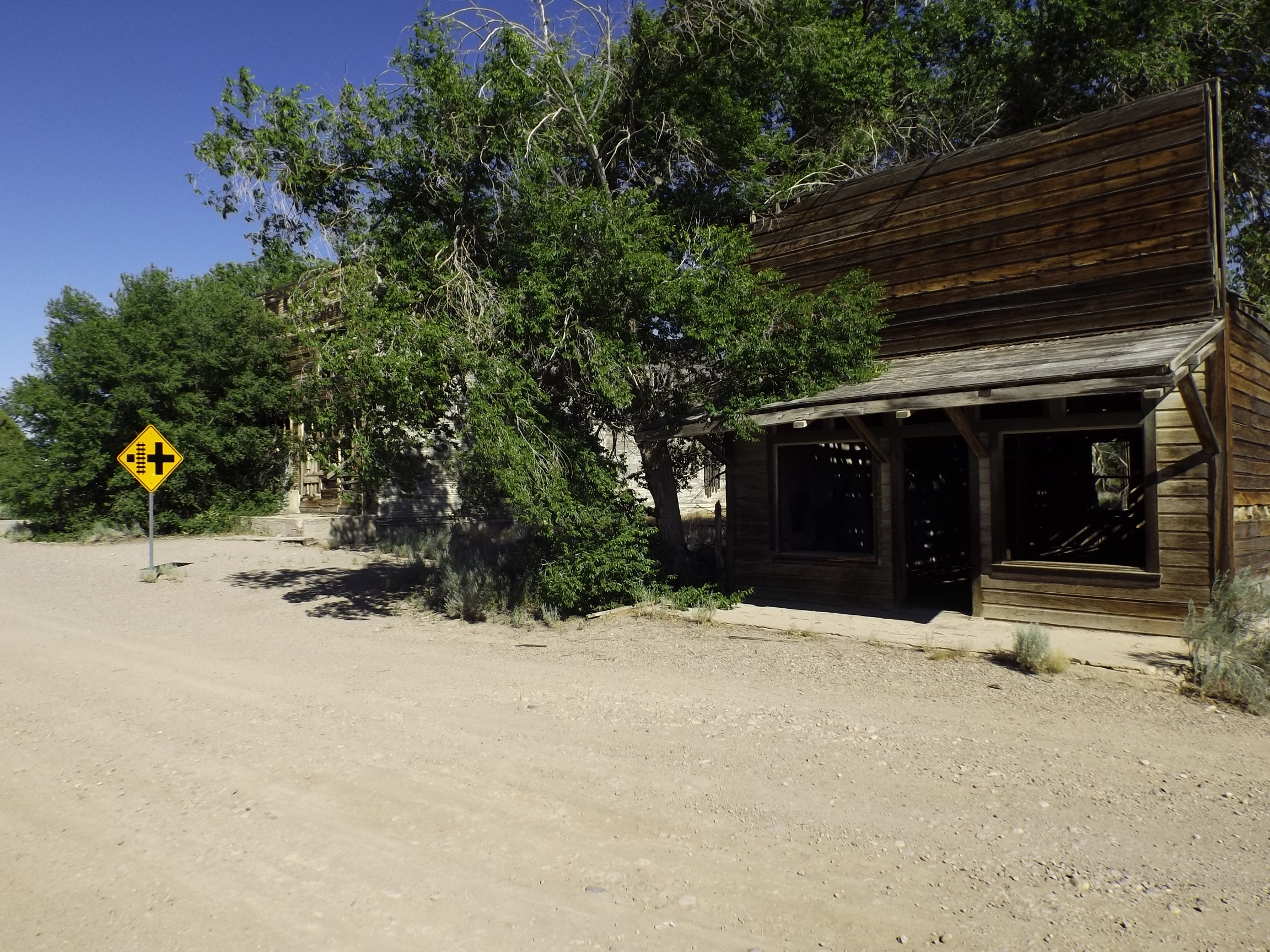 Abandoned buildings on Center Street in Modena, Utah